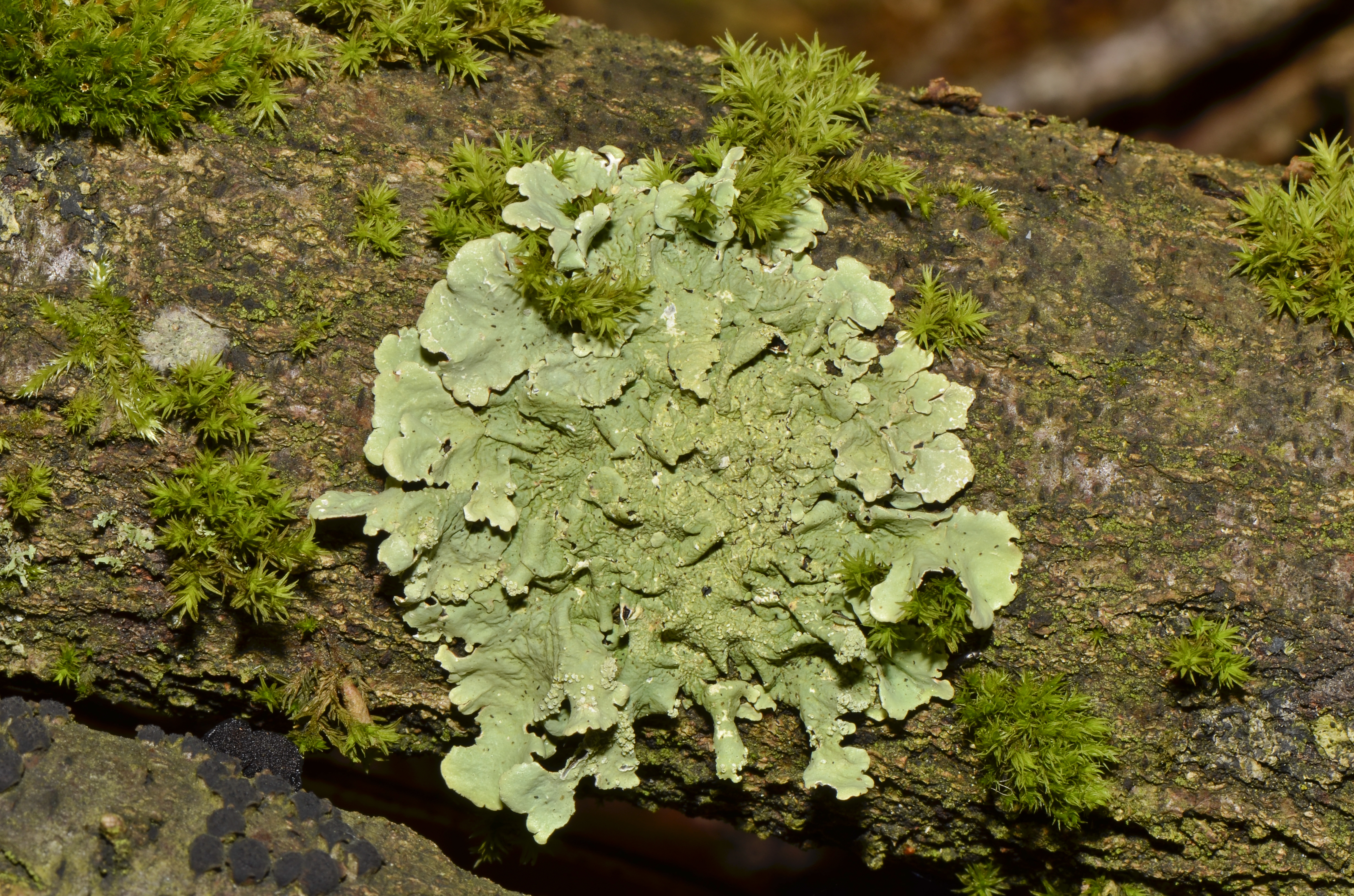 Flavoparmelia caperata (lichen), Hesse, Germany. The specimen had a size of a two Euro coin. Lichens are interesting life forms: fungi hold algae captive in a way, that their relationship is in-between a symbiosis and purely parasitic, also described as controlled parasitism. The lichen species was kindly assigned by Prof. Volkmar Wirth (cf. "Farbatlas Flechten und Moose" by Volkmar Wirth and Ruprecht Düll, Eugen Ullmer GmbH, 2000, ISBN 3-8001-3517-5). Please contact me, if you think that it is a different species.